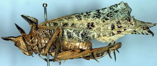 Markia major (Brunner von Wattenwyl, 1878), female, lateral view (lectotype). Source: Naturhistorisches Museum, Vienna.